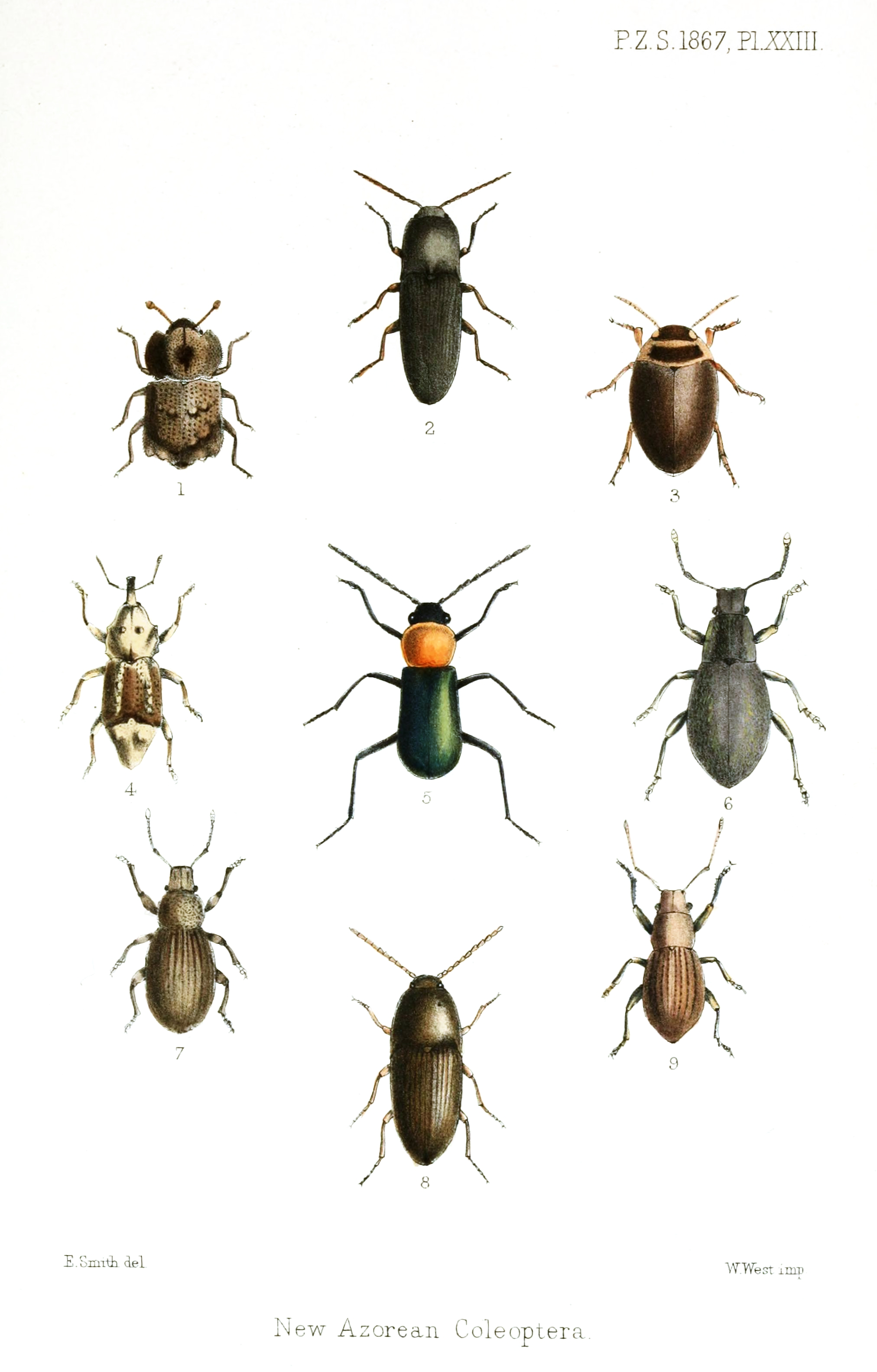 "New Azorean Coleoptera" 9: Fuller's Rose Beetle